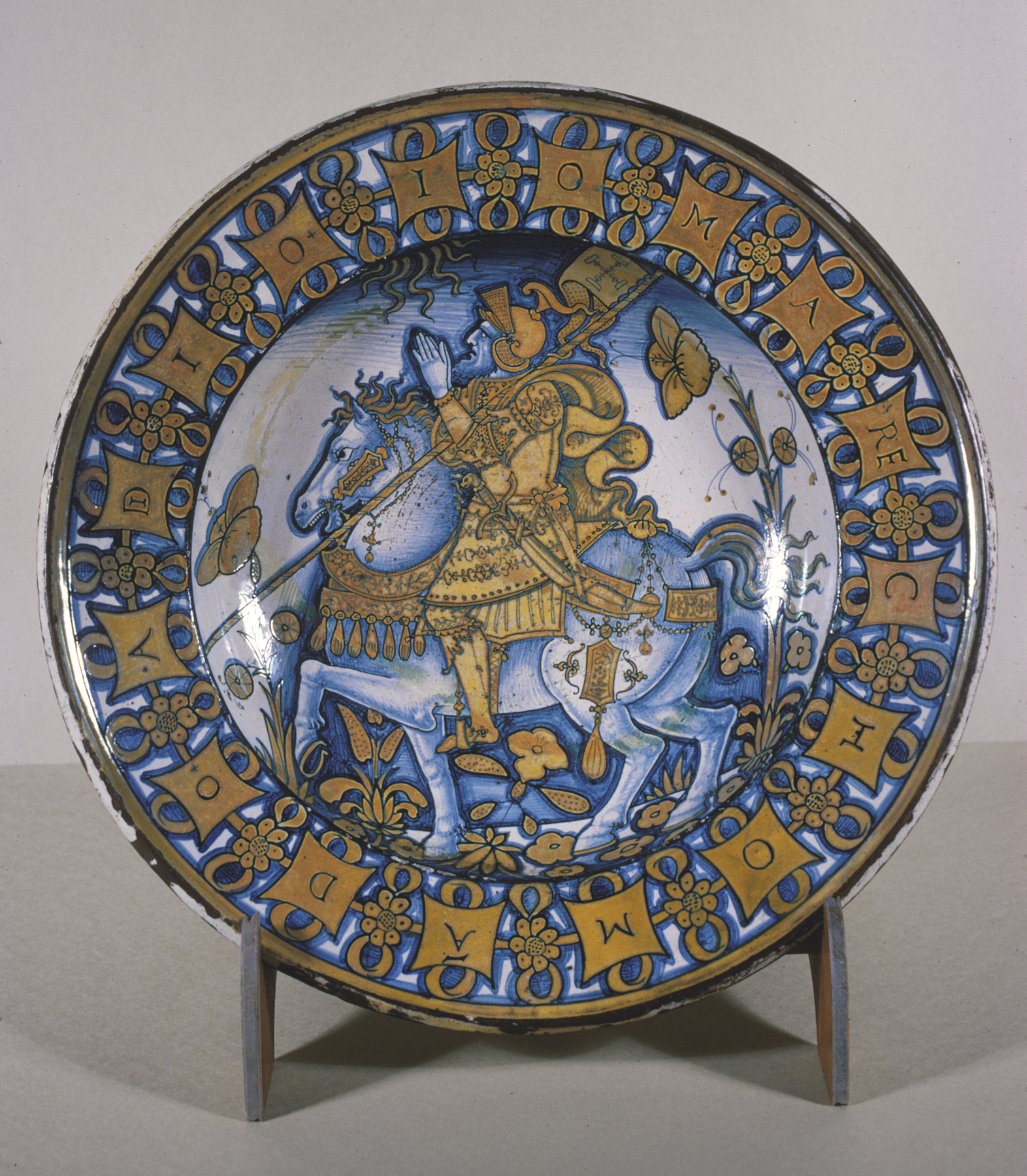 Constantine was the first Christian Emperor of Rome; his dramatic conversion and military victories made him the ideal Christian soldier. He is shown in prayer, surrounded by an inscription that translates, "I commend myself to God." This is a "piatto di pompe," or ceremonial dish, distinguished by its impressive size and skillful decoration. In the 16th century, a group of these large dishes could take the place of fine metal vessels on a sideboard display. Painted in cobalt blue and gold-colored luster, it reveals the influence of Hispano-Moresque pottery.